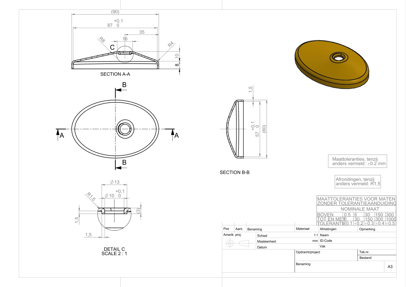 A technical drawing of a part of a lamp